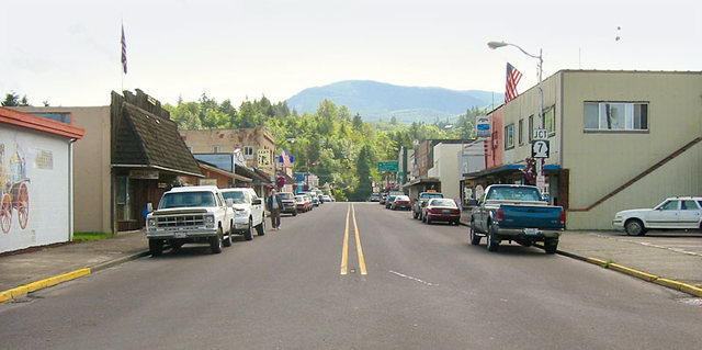 Main Avenue from the intersection at 3rd Street, Morton, Washington, U.S.